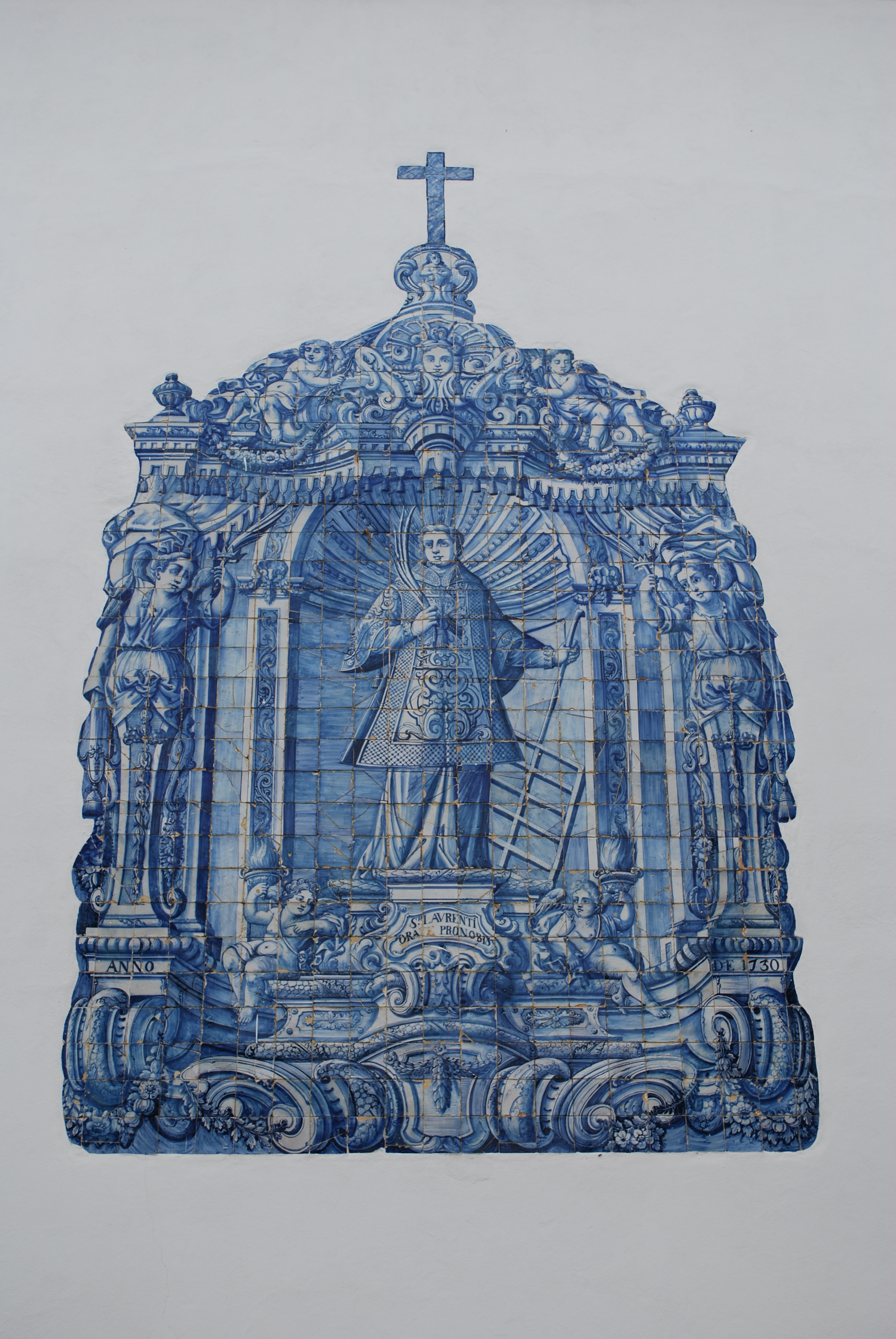 This file was uploaded for Wiki Loves Monuments in Portugal with the unique identifier 72985.